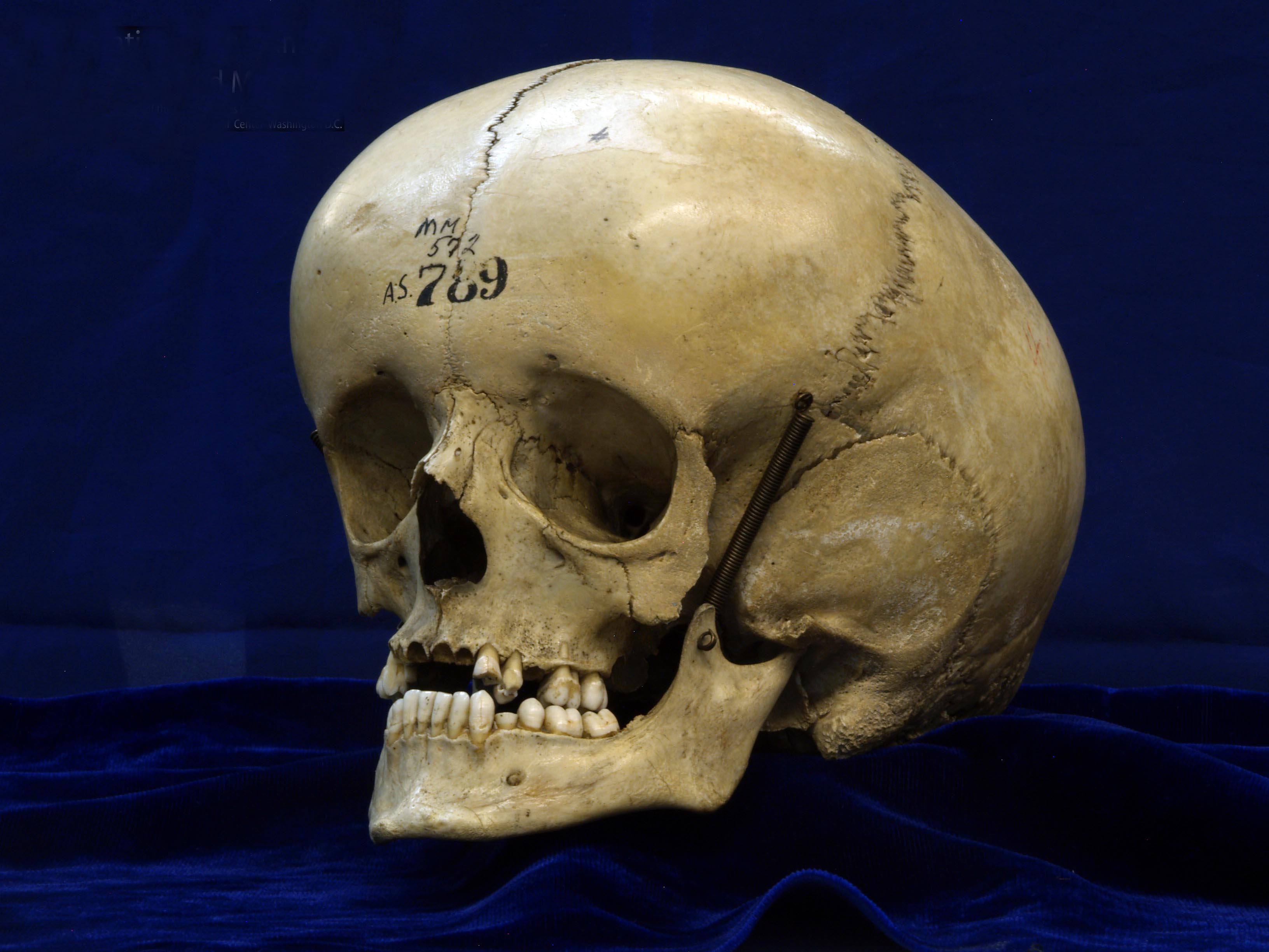 [Hydrocephalic Cranium of 25 year old Man] Army Medical Museum Anatomical Series 789